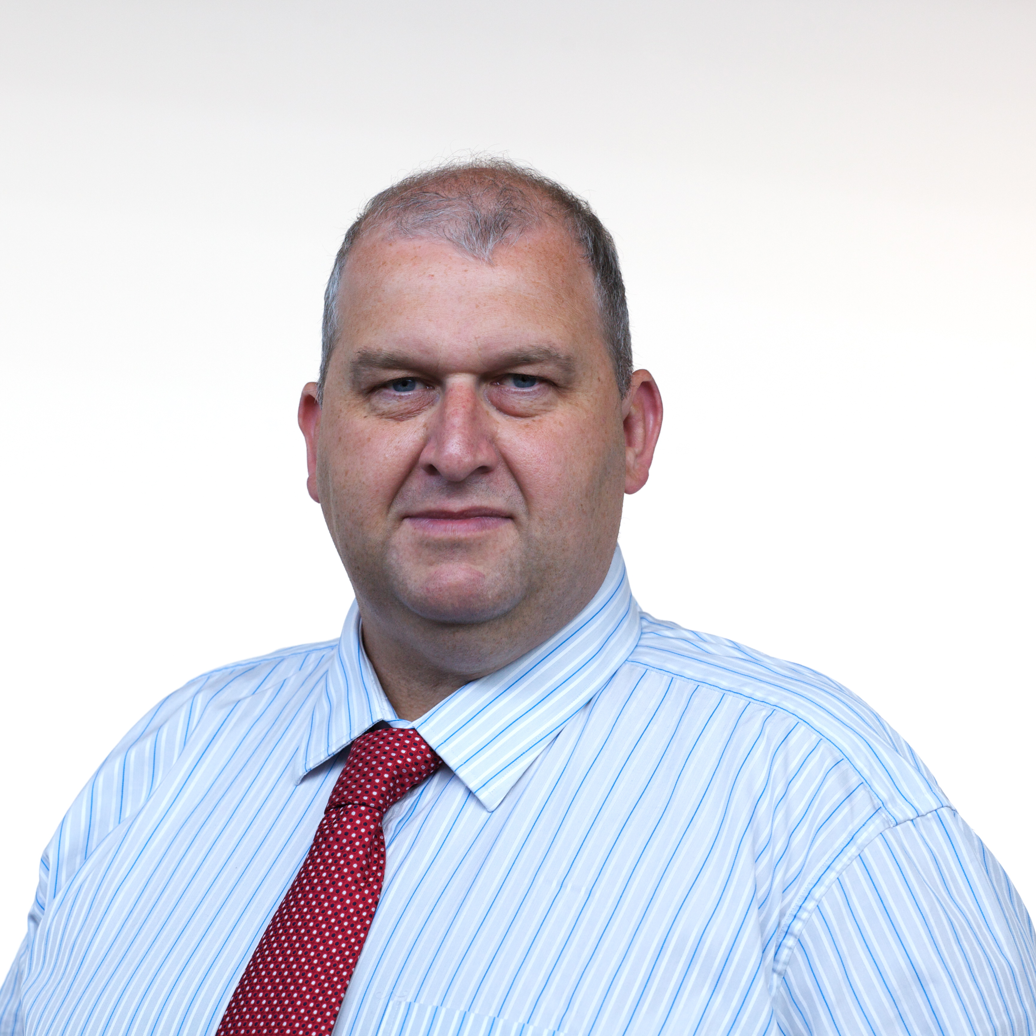 Carl Sargeant AM, member of the National Assembly for Wales.